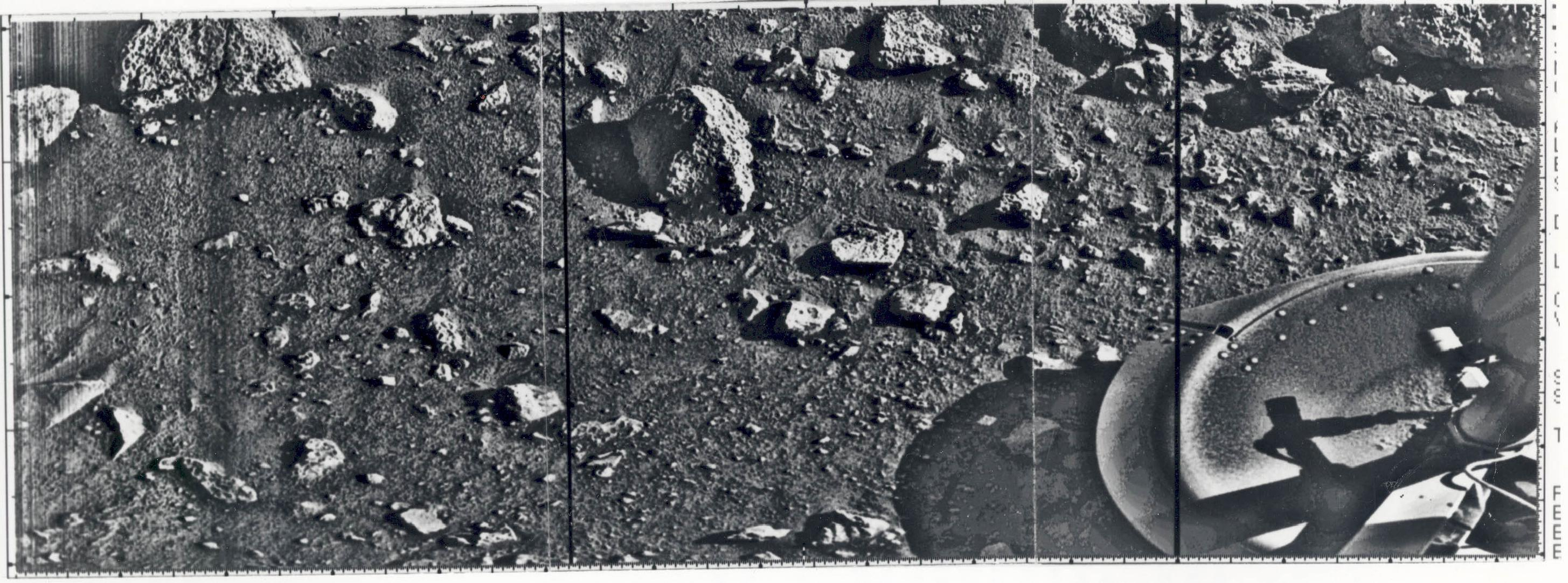 Taken by the Viking 1 lander shortly after it touched down on Mars, this image is the first photograph ever taken from the surface of Mars. It was taken on July 20, 1976. The primary objectives of the Viking mission, which was composed of two spacecraft, were to obtain high-resolution images of the Martian surface, characterize the structure and composition of the atmosphere and surface and search for evidence of life on Mars.